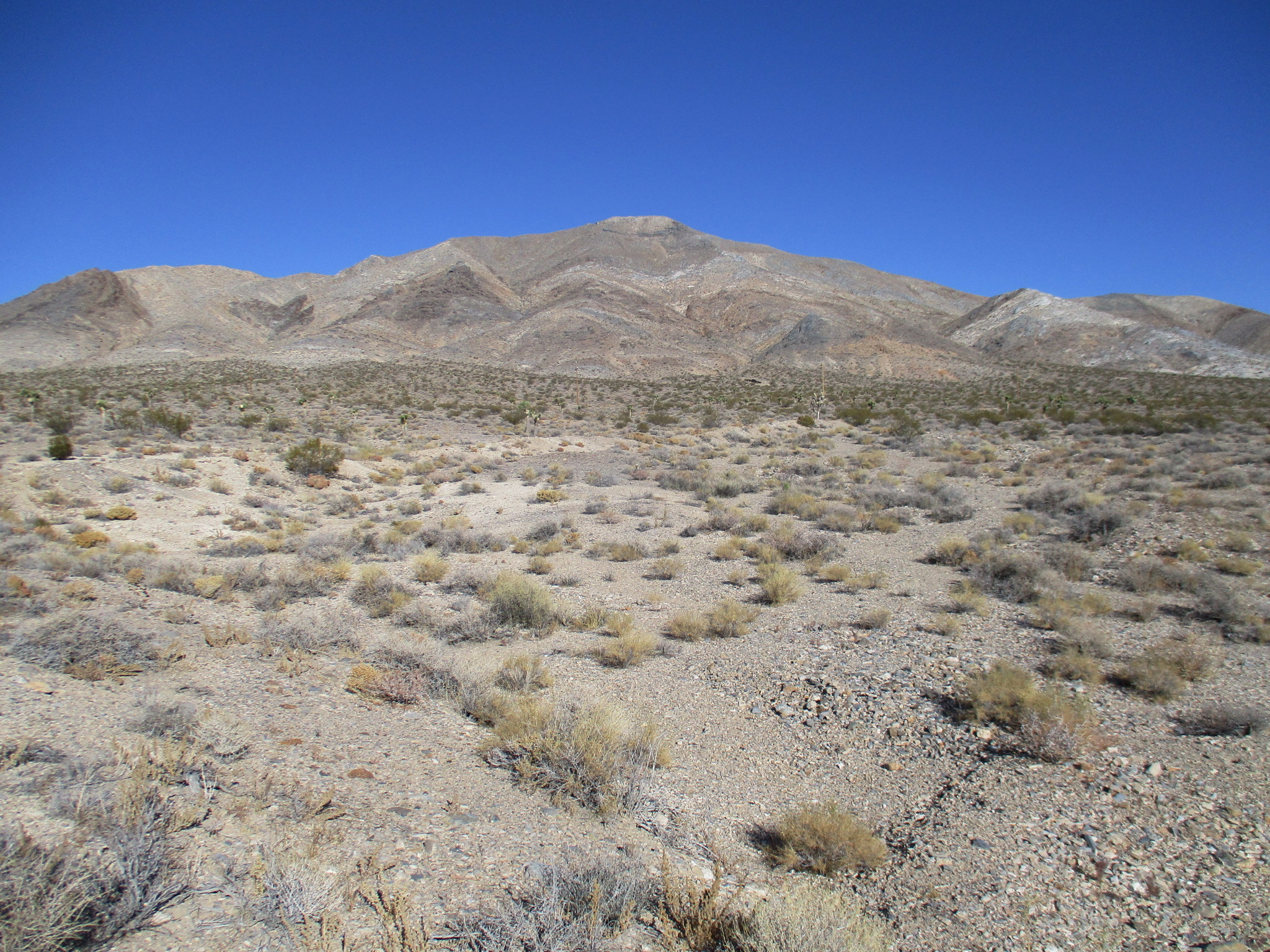 Ophir Mountain, elevation 6,010 ft (1,832 m), is the highpoint of the Darwin Hills. It is located in Inyo County, California. The view is from the southwest.